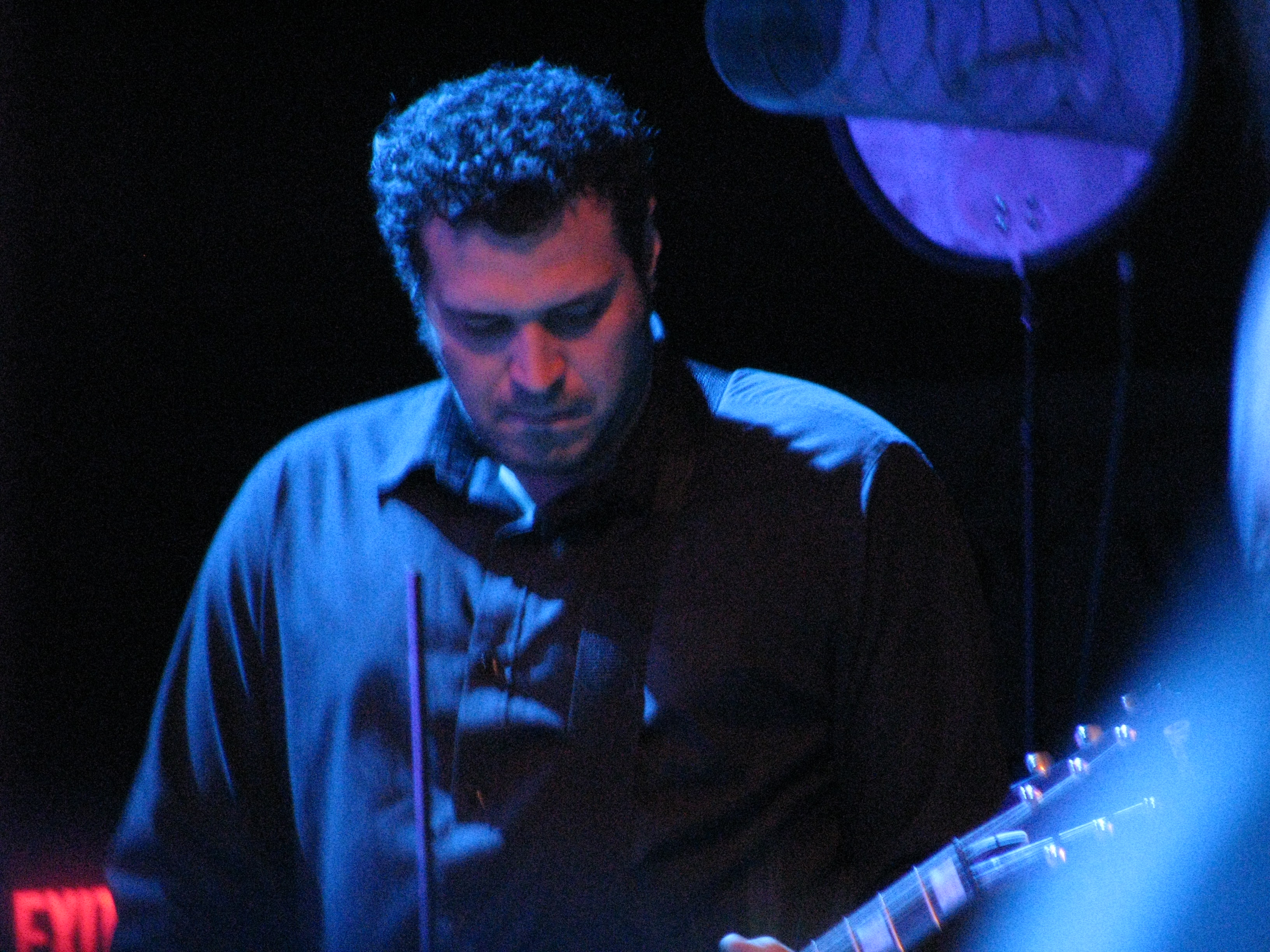 Paul Hinojos, a guitarist for the Mars Volta, performing in the Roy Wilkins Auditorium in St. Paul, MN.